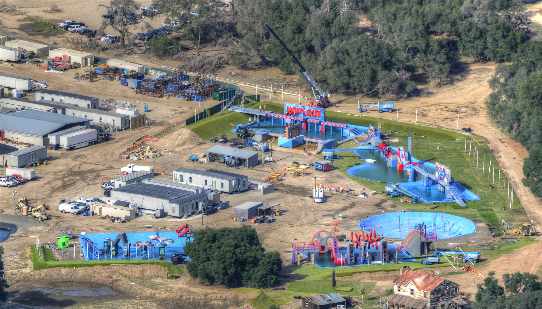 The set of the ABC network television comically oriented obstacle course competition show Wipeout (2008–2014), as seen from above at Sable Ranch in Canyon Country, Santa Clarita, California.